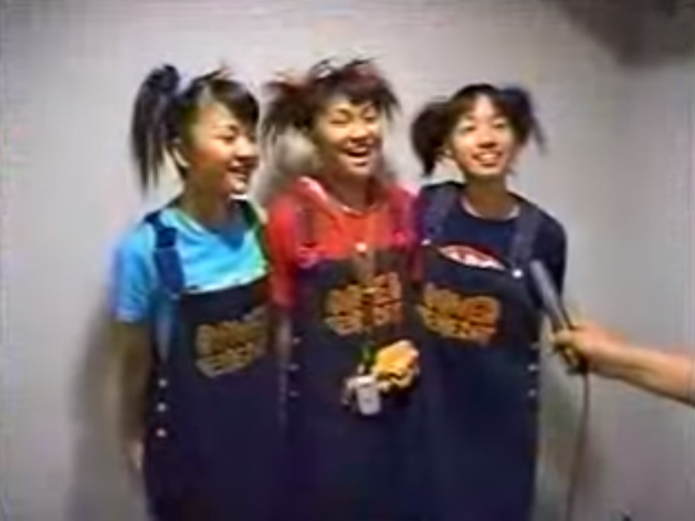 Perfume in 2001